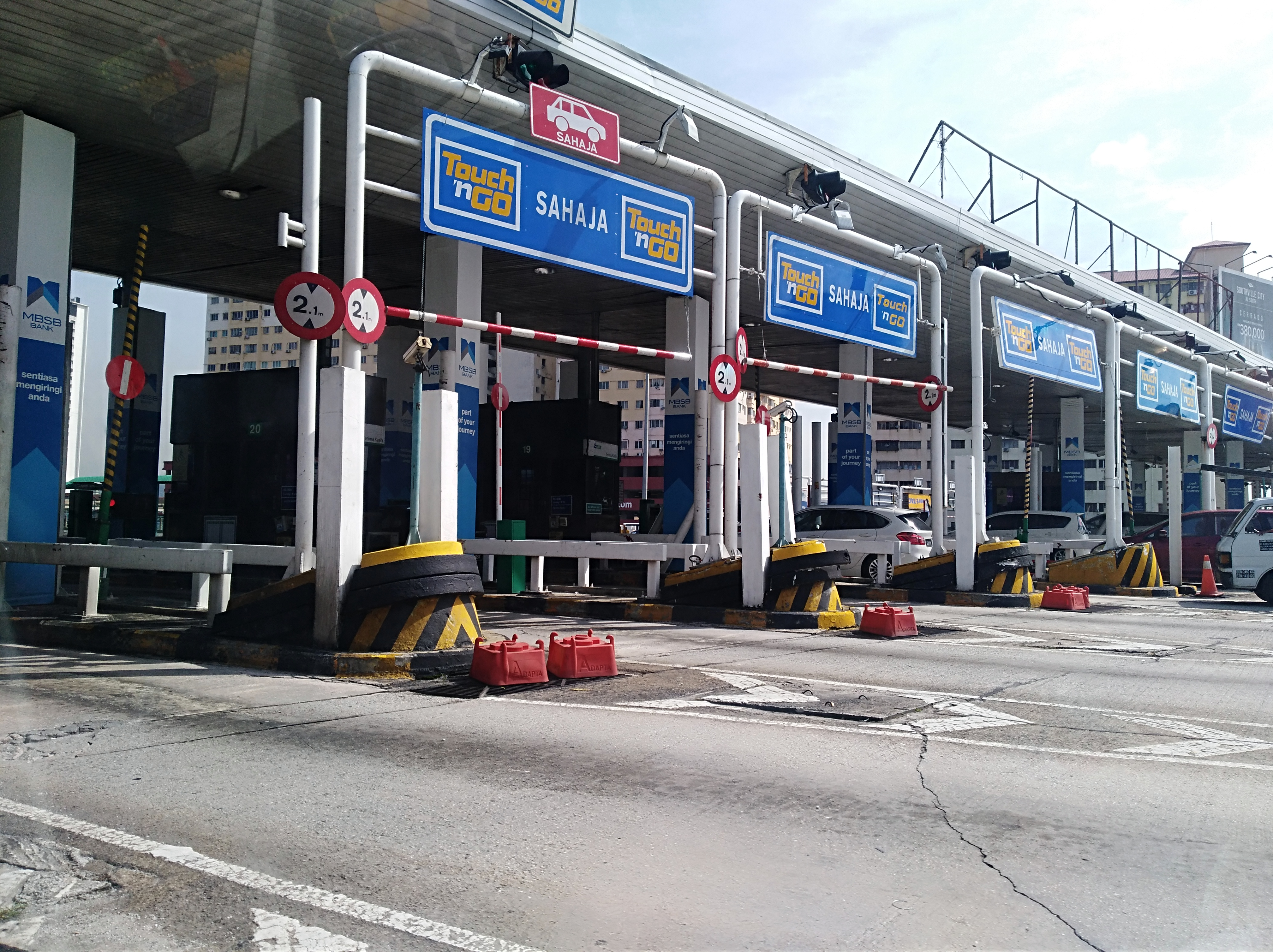 Taken along the way to Mid Valley